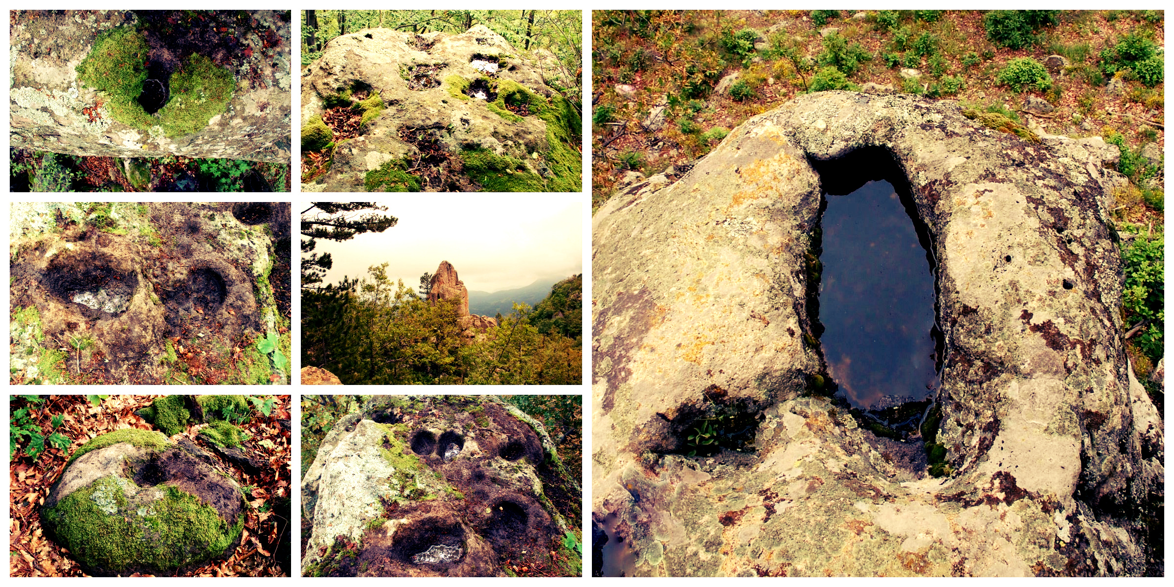 Prehistoric sanctuary Pitvoto, Rhodopa Mountain Bulgaria